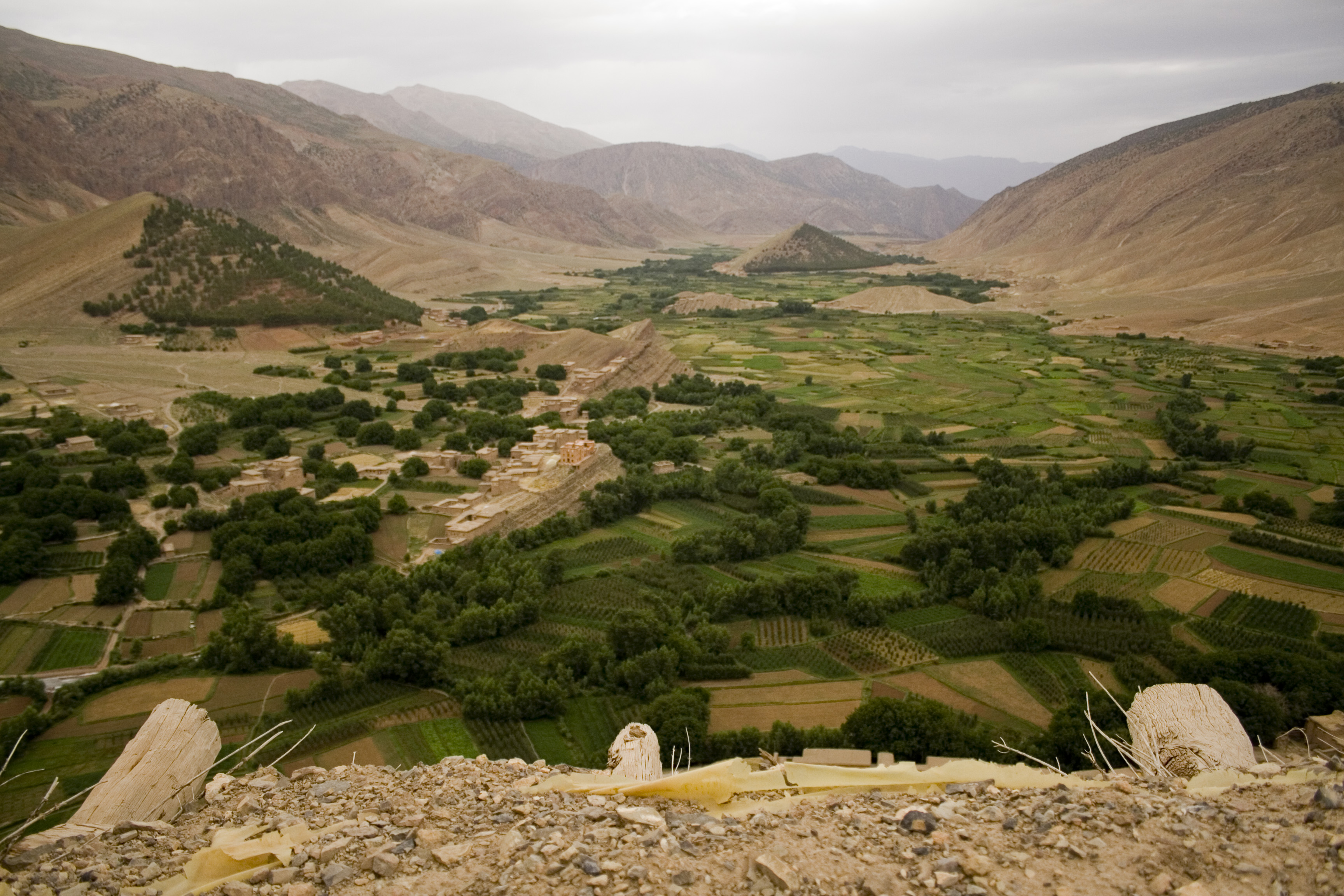 A view over the Aït Bouguemez valley in the Atalas mountains, taken from the communal granery near Tabant.